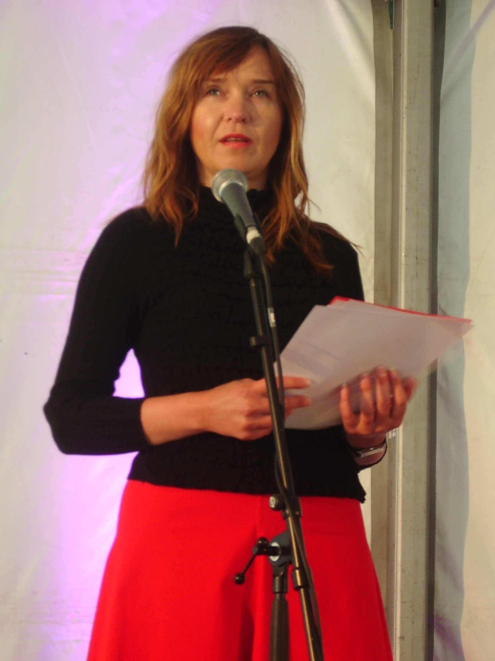 Triin Soomets (born 1969) is Estonian poet. Performing in Tallinn Literature Festival.